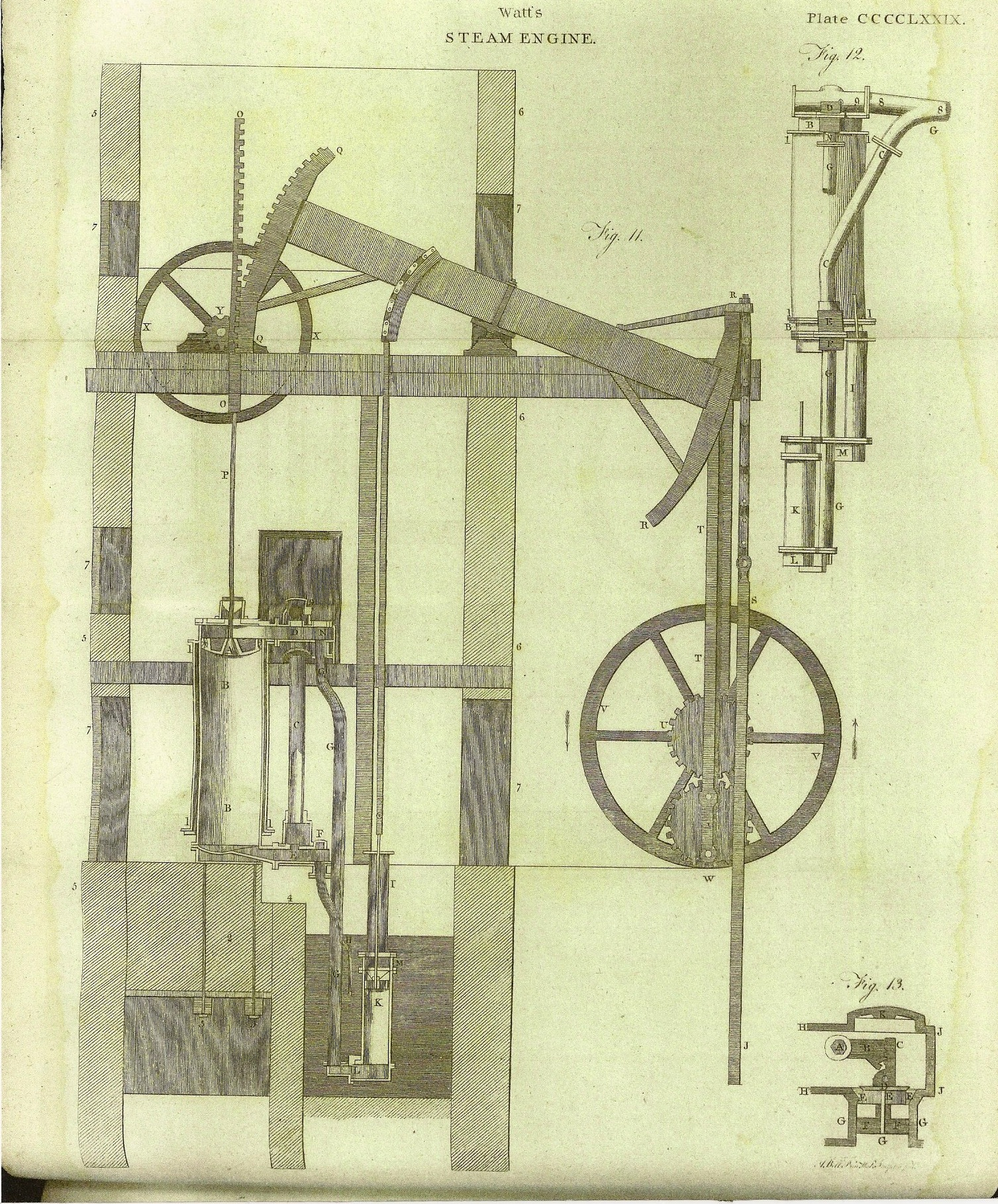 A drawing of James Watt’s Steam Engine printed in the 3rd edition Britannica 1797